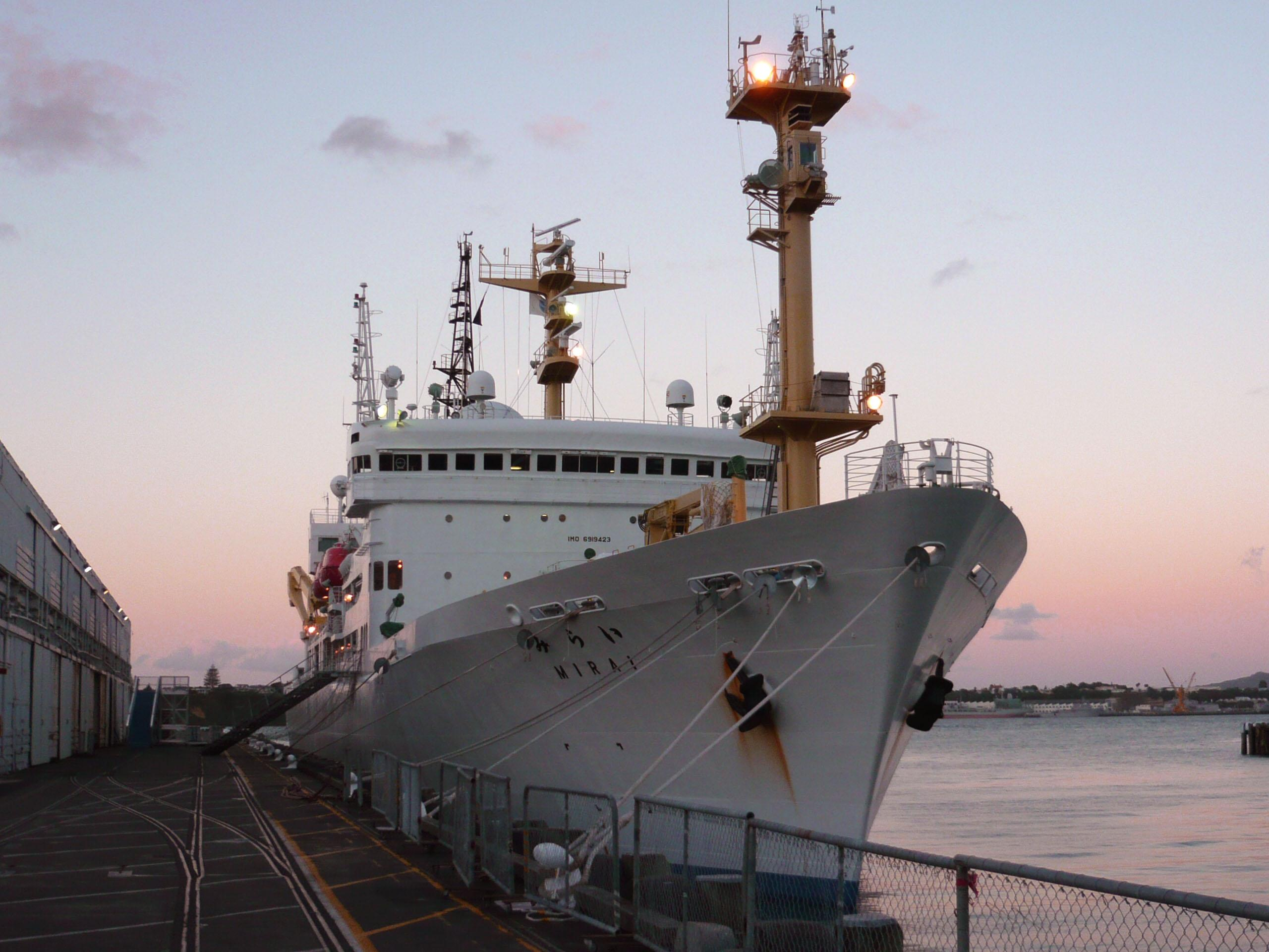 Japanese research vessel Mirai, formerly the nuclear-powered ship Mutsu.